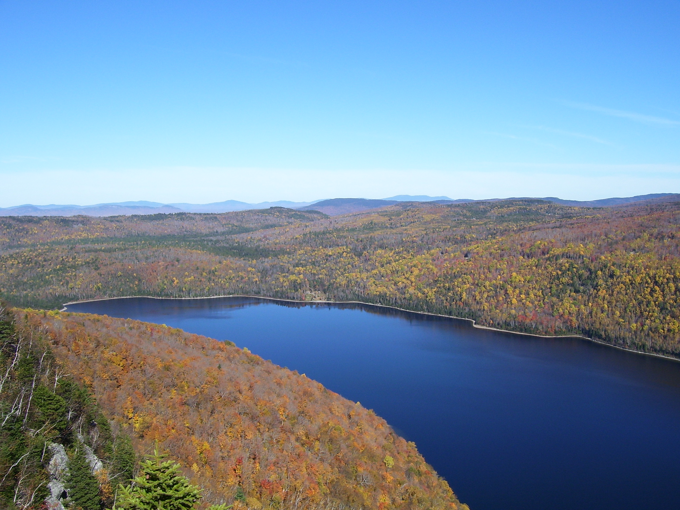 Autumn view of Enchanted Pond and Bulldog Camps from Enchanted Lookout on Shutdown Mountain, looking north.